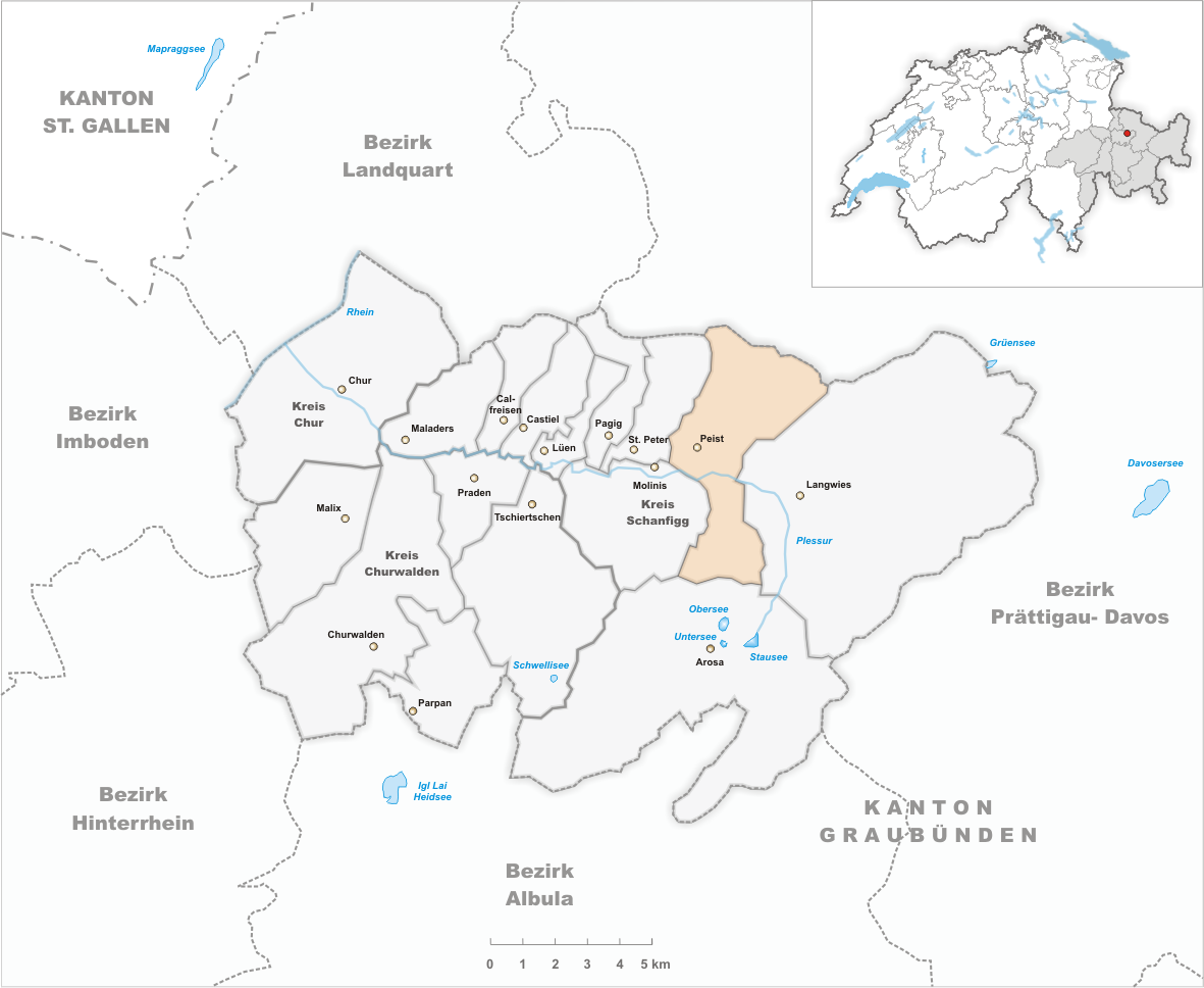 Municipality Peist